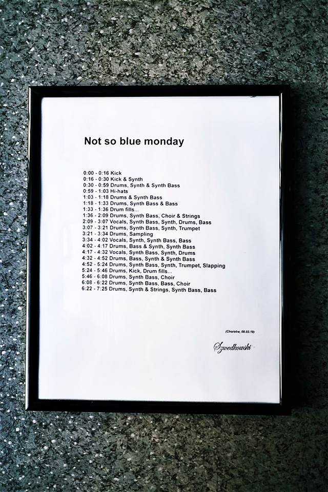 Poetic interpretation, cover of the song "Blue monday" by the band New Order. An example of written sound poetry by Witold Szwedkowski.